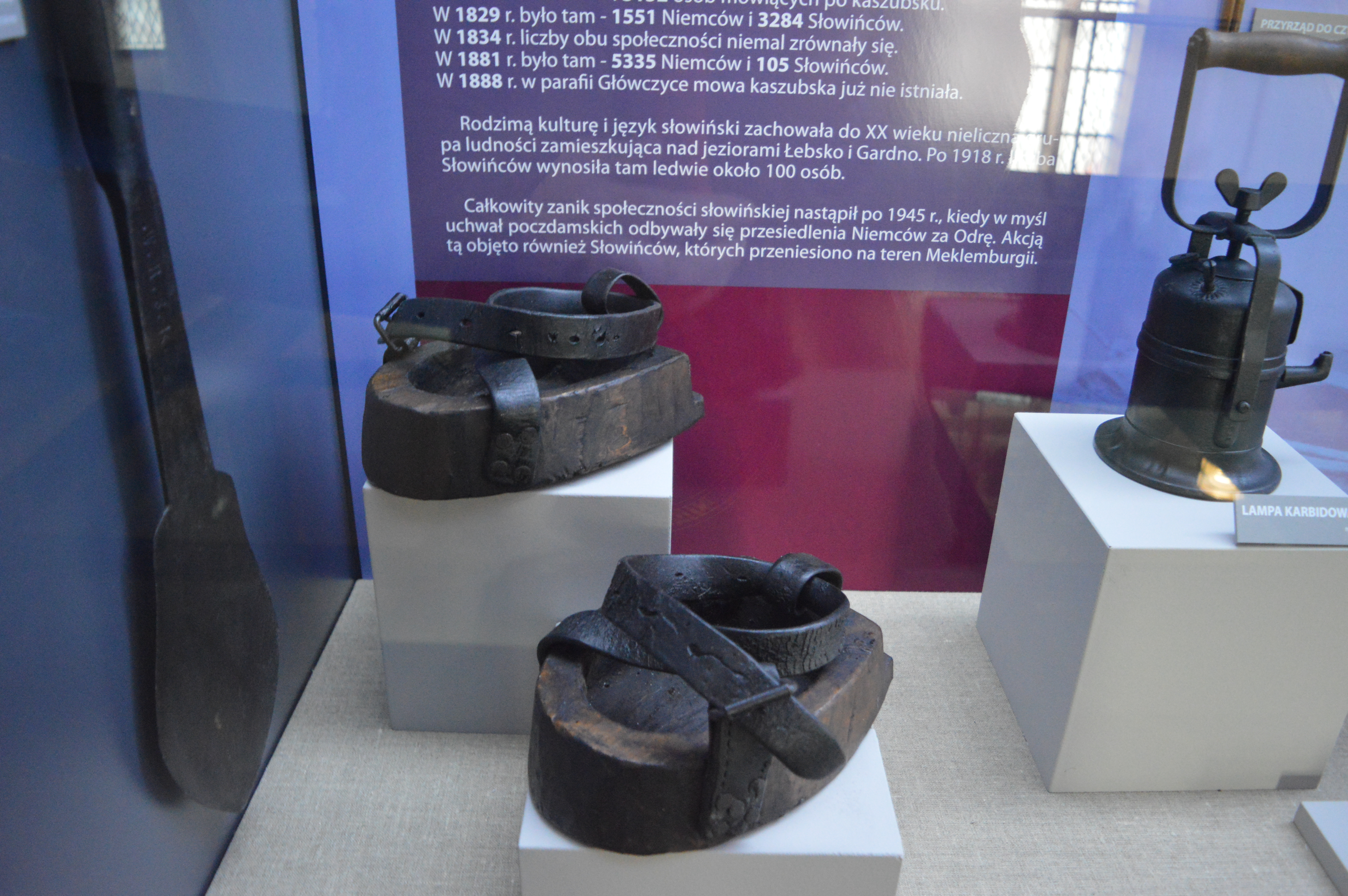 "Kluki" - kind of "shoes" for horse. They allowed horse to mova on swampy ground, ie. Mires, when collecting peat. Exhibit in Museum of Fishery in Hel, Poland